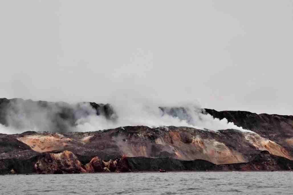 Smoking Hills southeast of Cape Bathurst, NT (Canada)